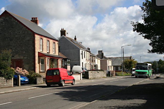 Summercourt. The village of Summercourt grew up around a road junction on the A30 and used to be an important place for the trading of livestock. The new A30 road now runs just to the north of the village. The bus on the right is on the route between Newquay and Truro providing a half hourly service in each direction from here.